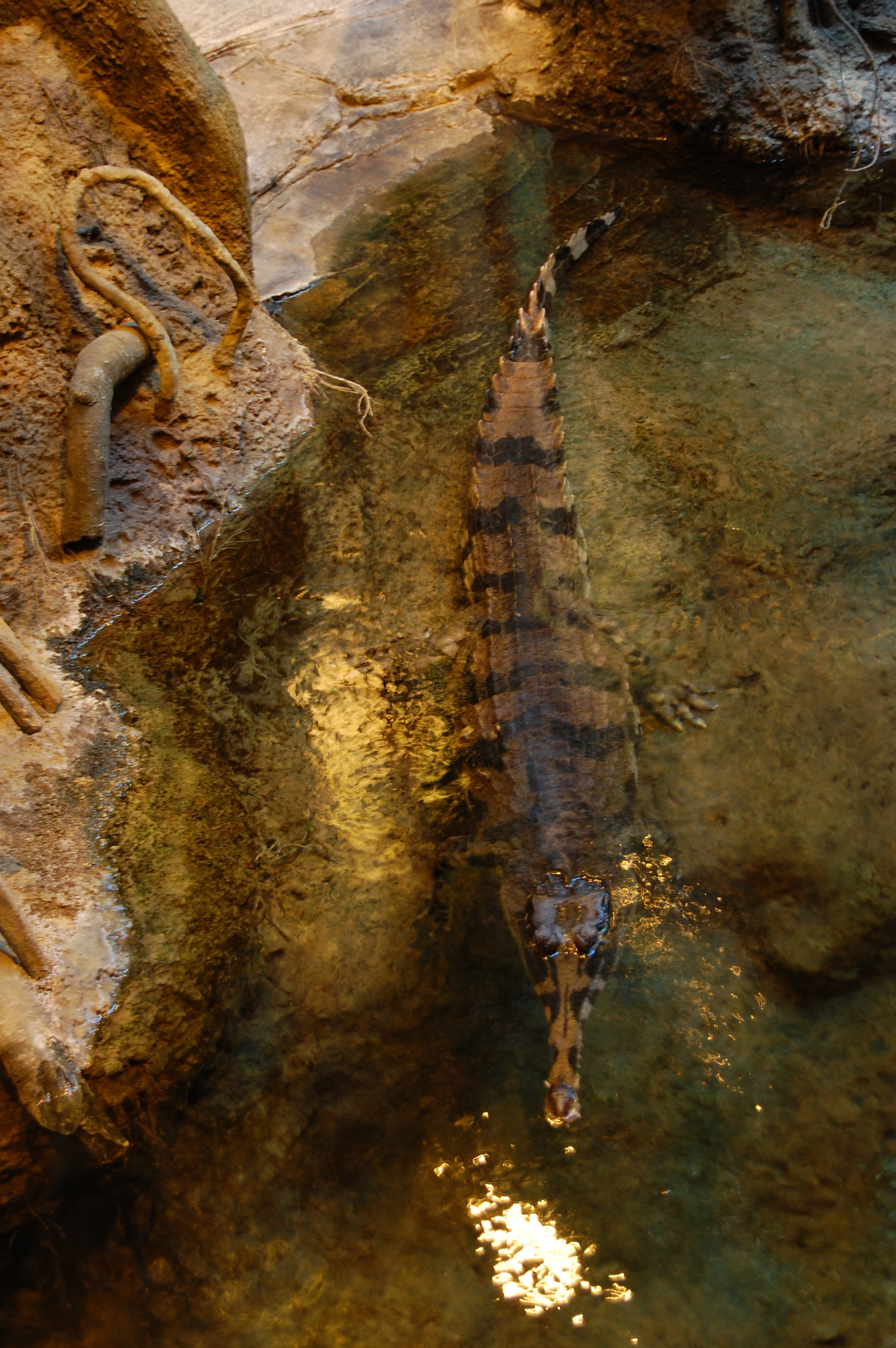 A Crocodilia found in the Wetland indoor Aquarium.